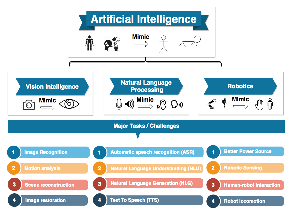 What is Artificial intelligence